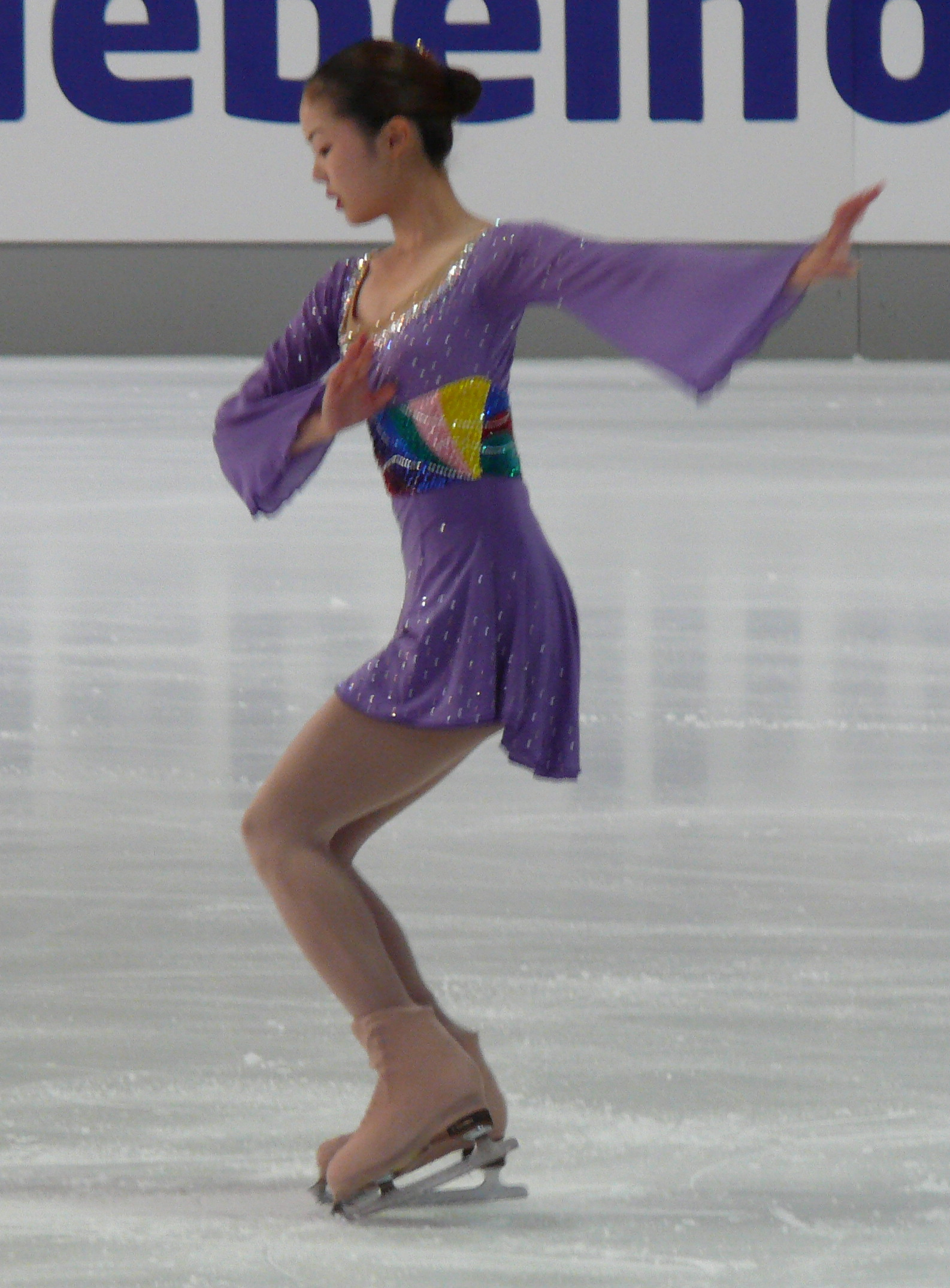 Shion Kokubun (JPN) at her short program at the Nebelhorn Trophy in Oberstdorf/Germany 2011